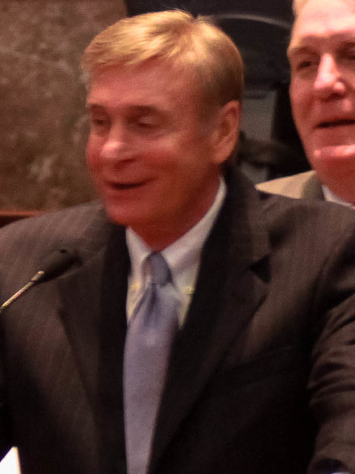 Curry Todd w/ Mike Turner